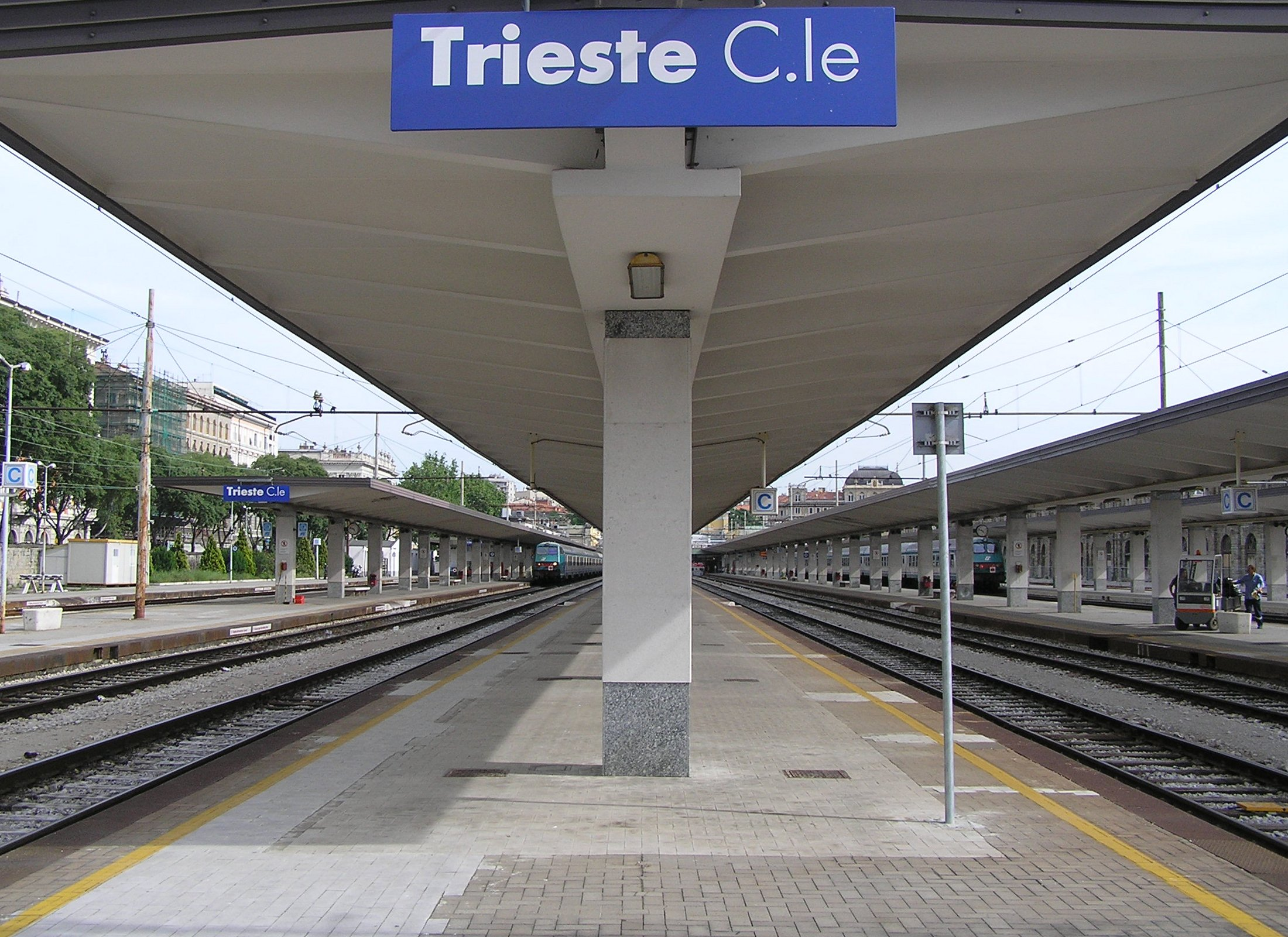 Railway station in Trieste, Italy